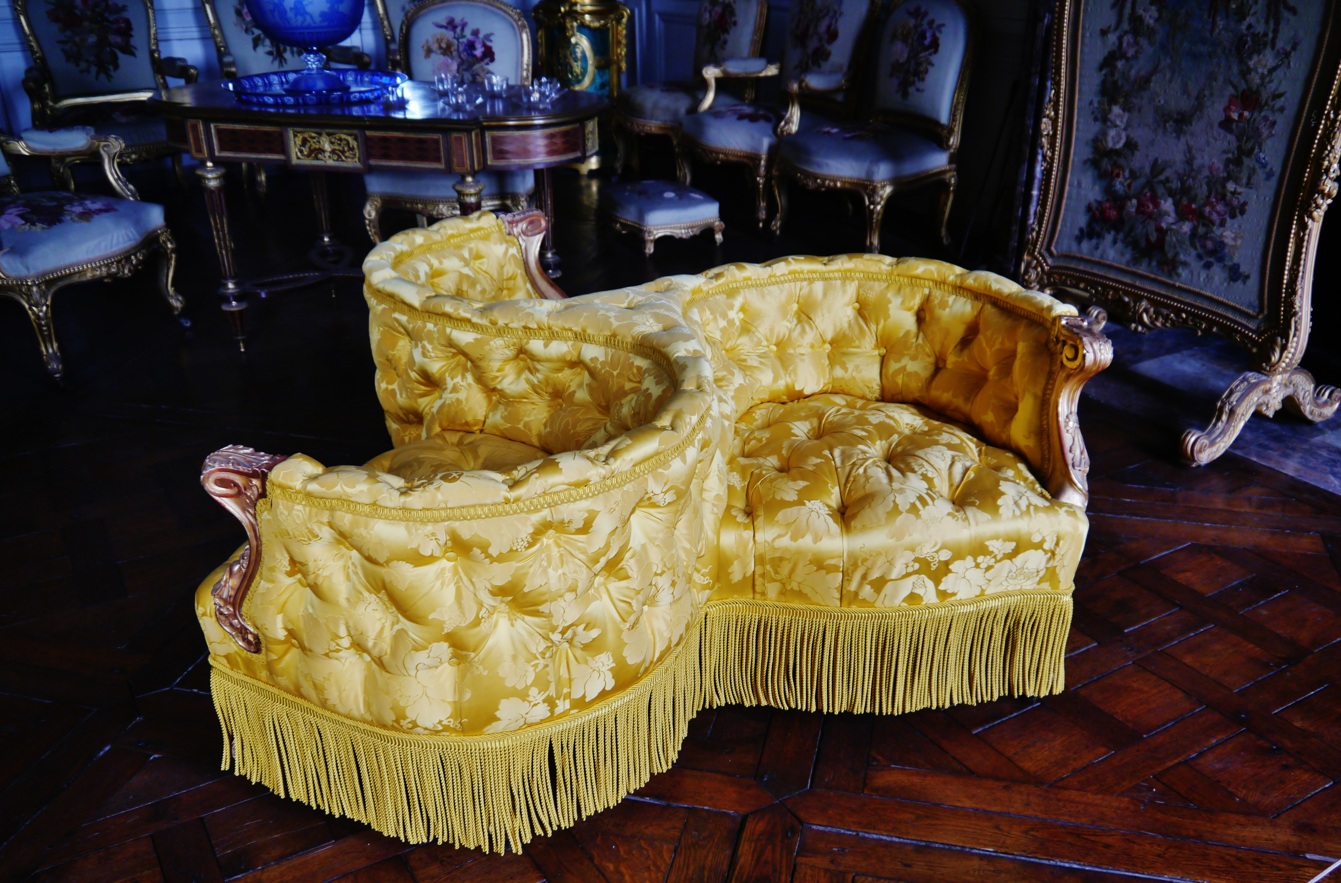 a Chair at the Reception Hall of Compiègne Palace, Compiègne, Department of Oise, Region of Upper France, (former Picardy), France